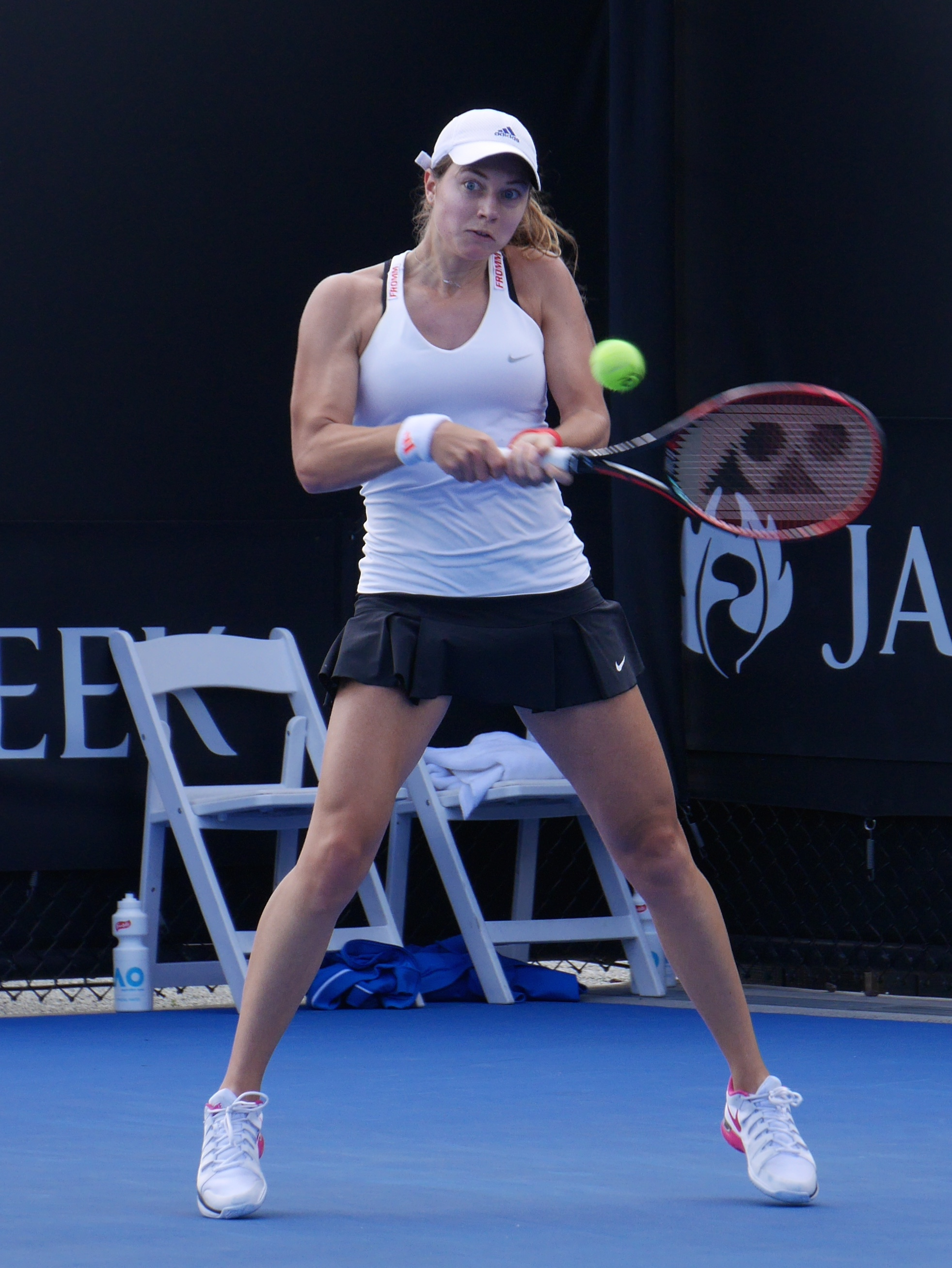 Vögele at the 2017 Australian Open.